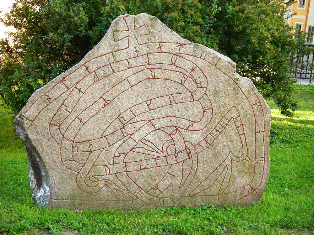 runic stone Upplands runinskrifter Fv1976;104